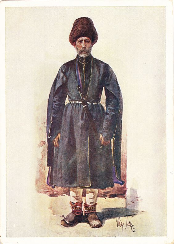 Karakapak Max Tike